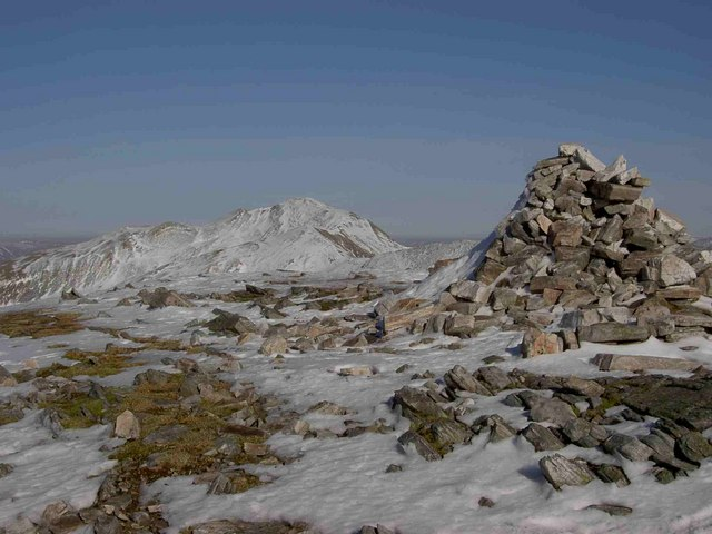 Snow and Ice on Stob Coire an Laoigh, 1116m. The icy summit of Stob Coire an Laoigh in the Grey Corries on a sunny March day